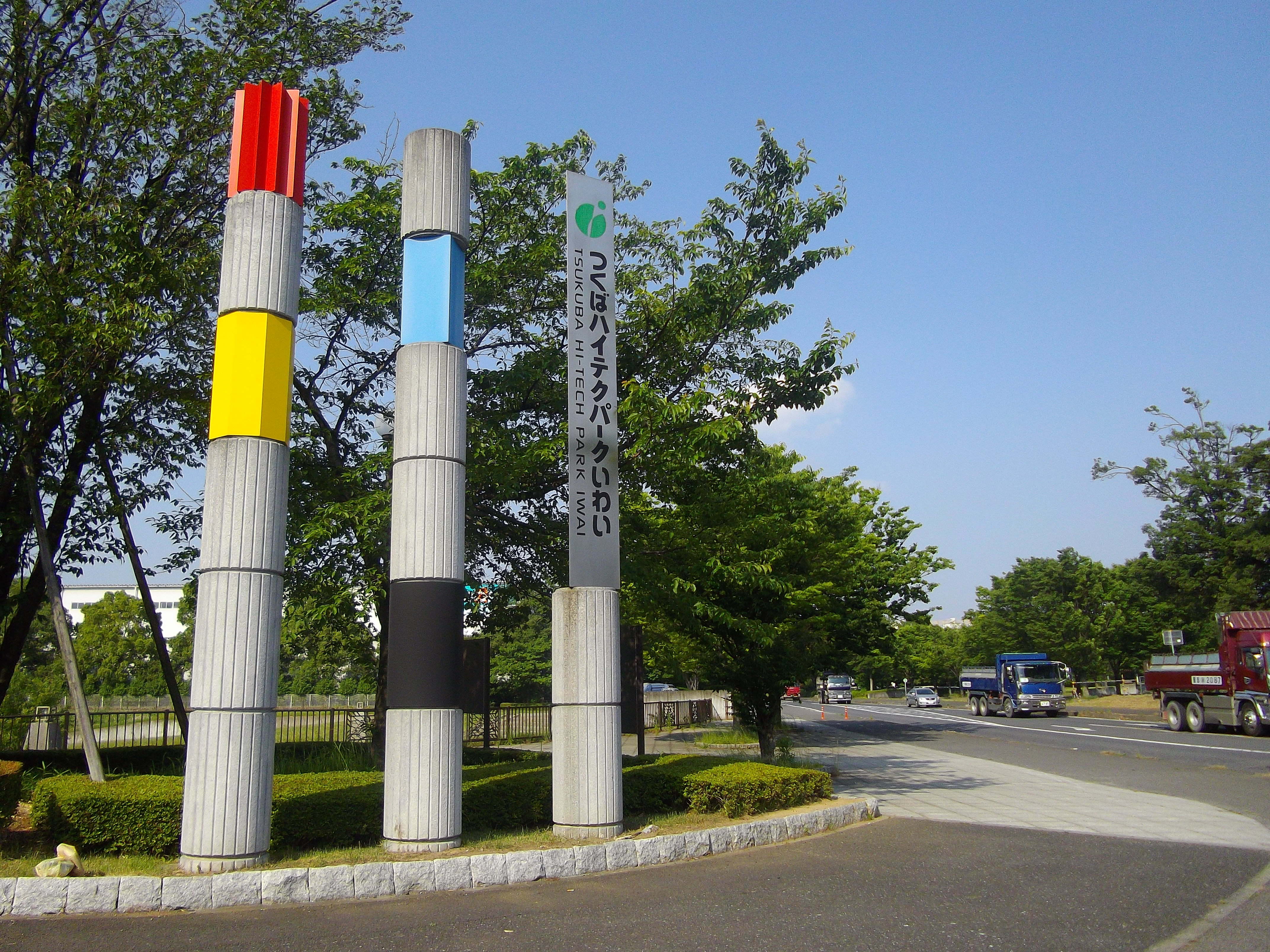 The sign of Tsukuba hi-tech park Iwai in Bando city, Ibaraki prefecture, Japan.